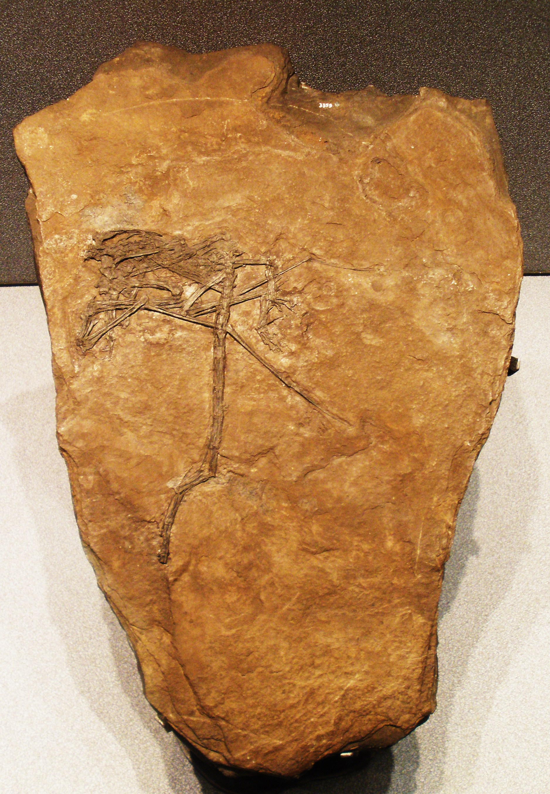 Fossil of Peteinosaurus zambellii (paratype MCSNB 3359), an extinct reptile